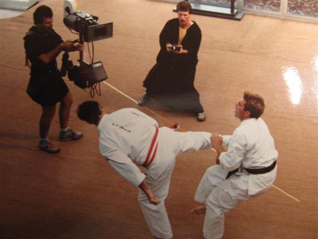 Filmed during the making of the classic Australian film: The Coolangatta Gold , photo shows scene with Paul Starling during kumite with Actor Joss McWilliam. Note cameramen in black in order to minimise shadows during filming. Filmed at Coolangatta Currumbin :1985 by submitter.